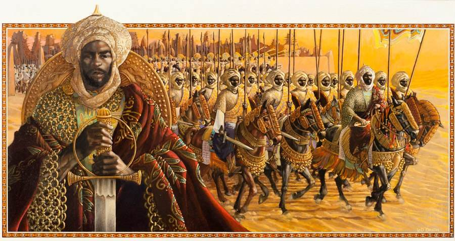 355-1492 A.D. The Mighty Moorish Empire of North Africa, South West Asia, Iberian Peninsula and The Americas.